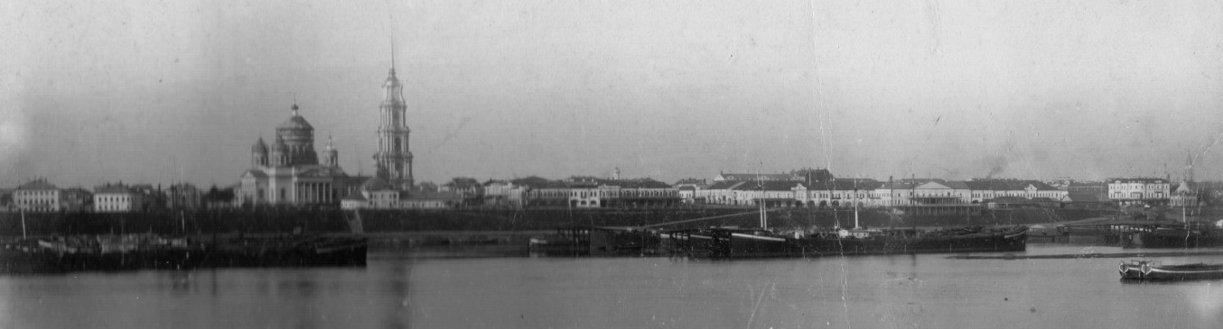 Type of Rybinsk from the Volga.